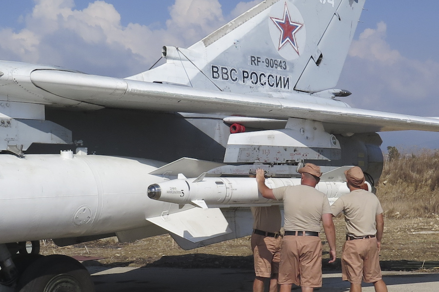 Fixing missiles to a Russian Su-24 jet at Latakia